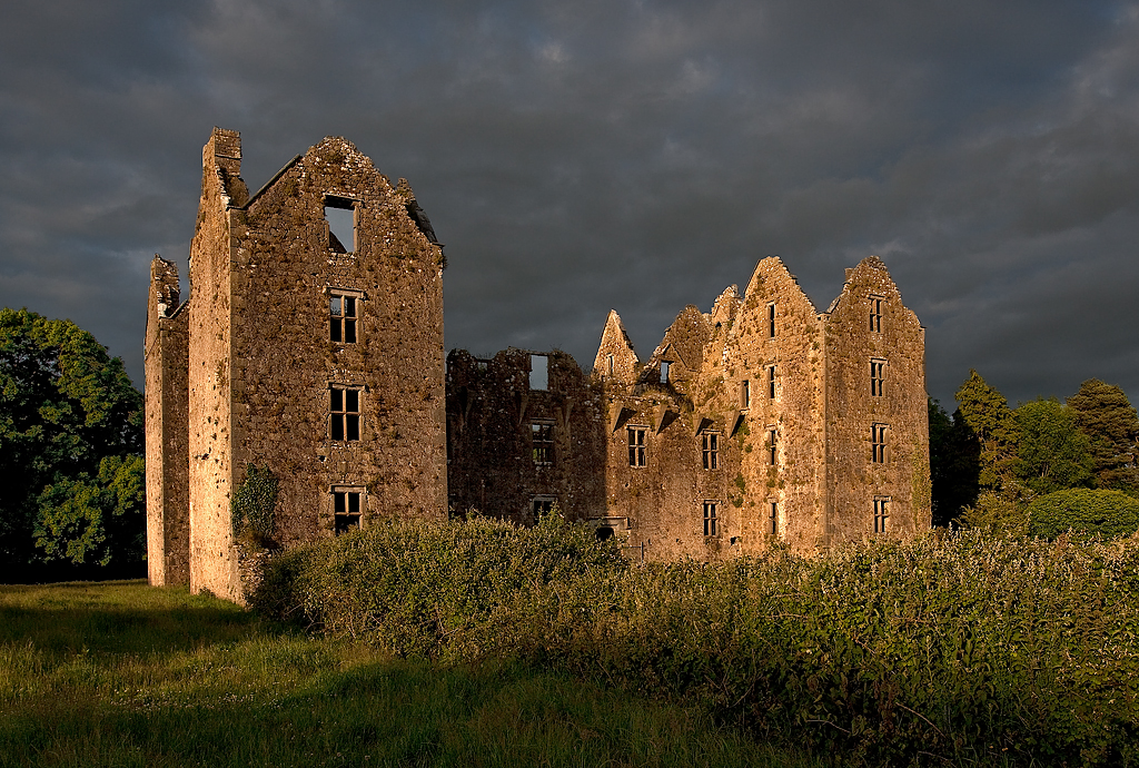 Castles of Munster: Burncourt, Tipperary (2) Burncourt lit by the low setting sun.